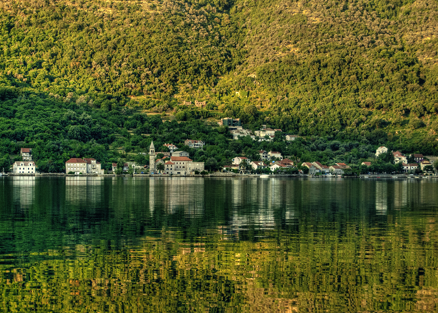 Montenegro, Donji Stoliv